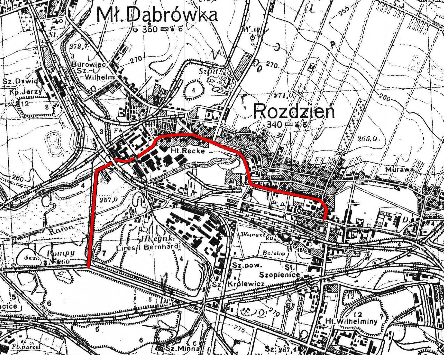 Obrońców Westerplatte Street in Katowice-Szopienice. Map from 1933.